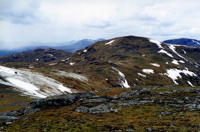 Meall Glas From Beinn Cheathaich.